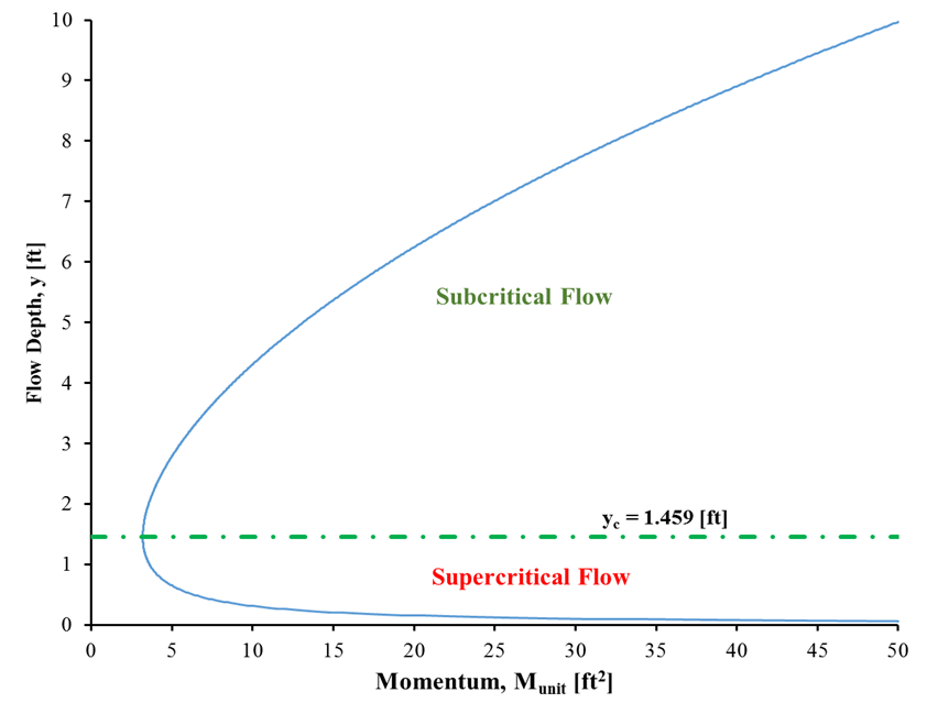 regions of flow in a M-y curve